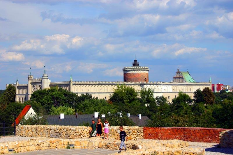 Lublin Castle (before renovation) as seen from Old Town